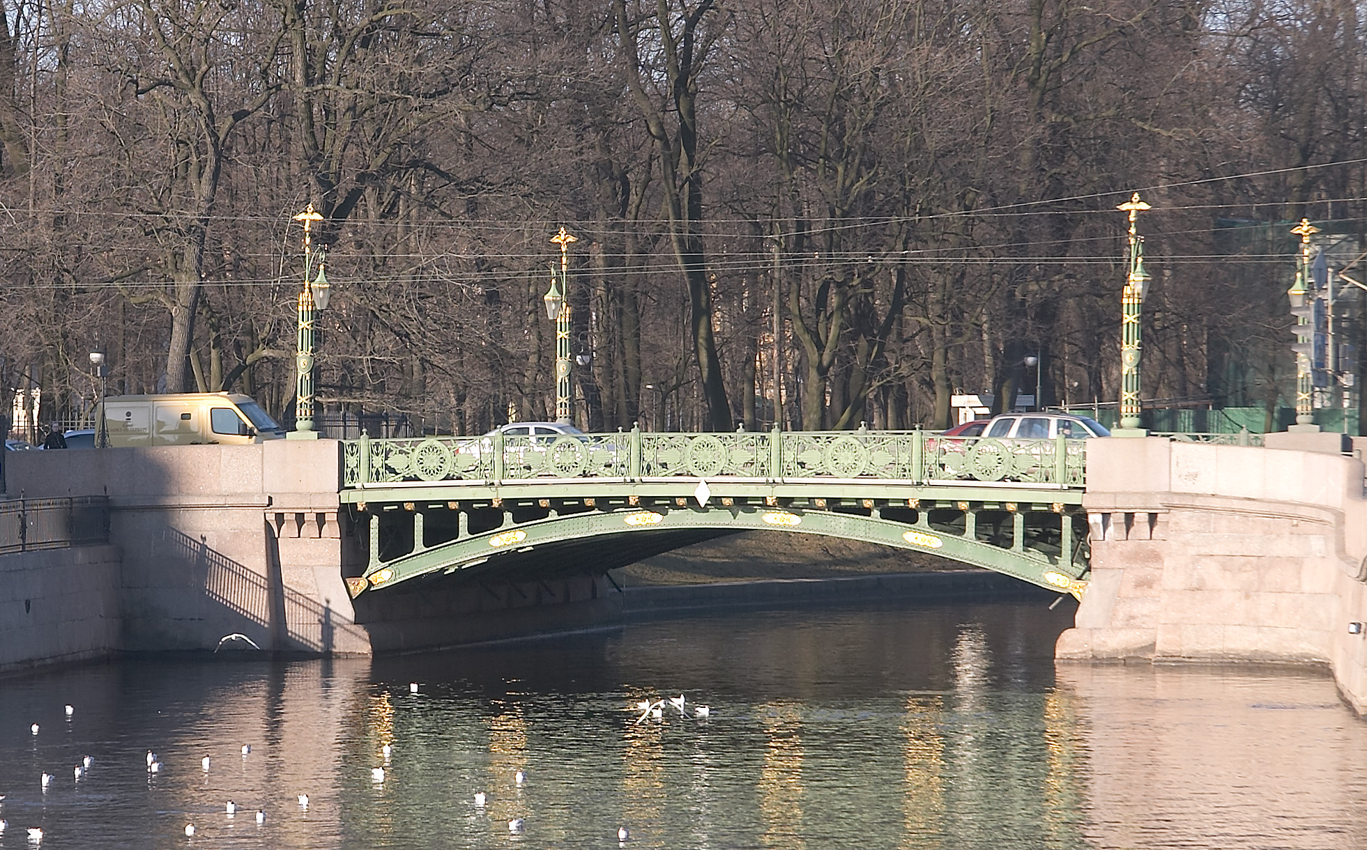 First Garden bridge in Saint Petersburg, overview